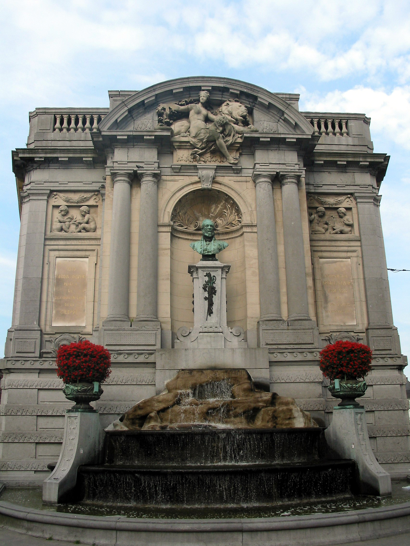 Verviers (Belgium), the Ortman fountain (1878).